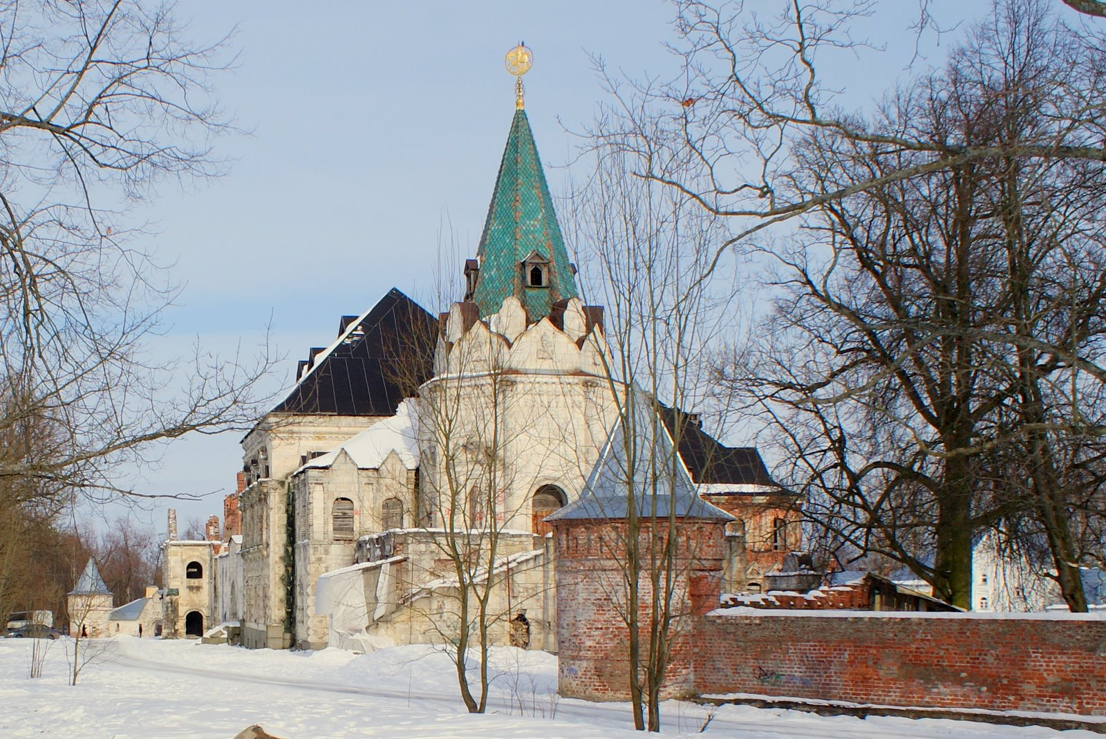 Feodorovsky gorodok in Tsarskoye Selo. The Refectory chamber. South view.